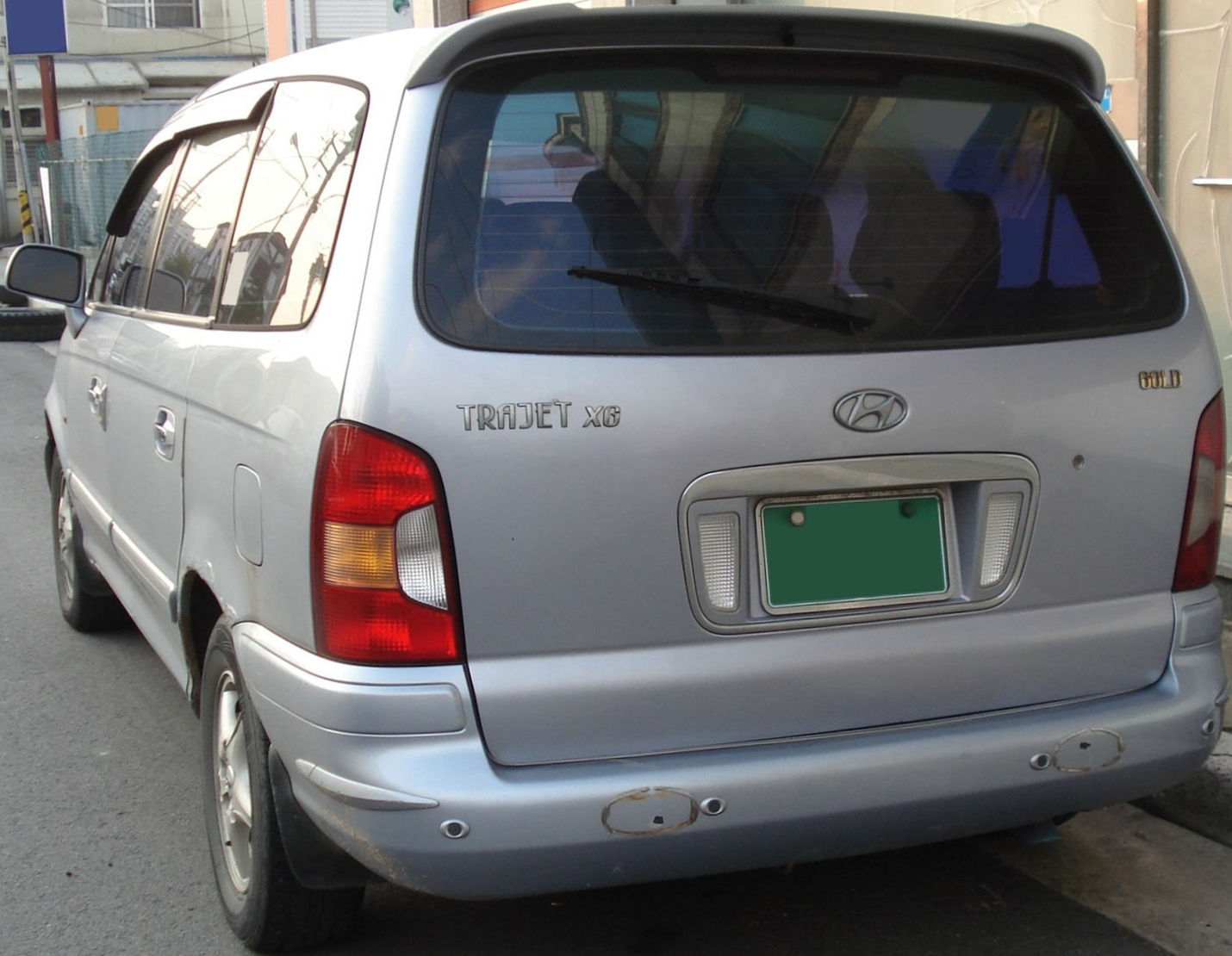 Hyundai Trajet XG